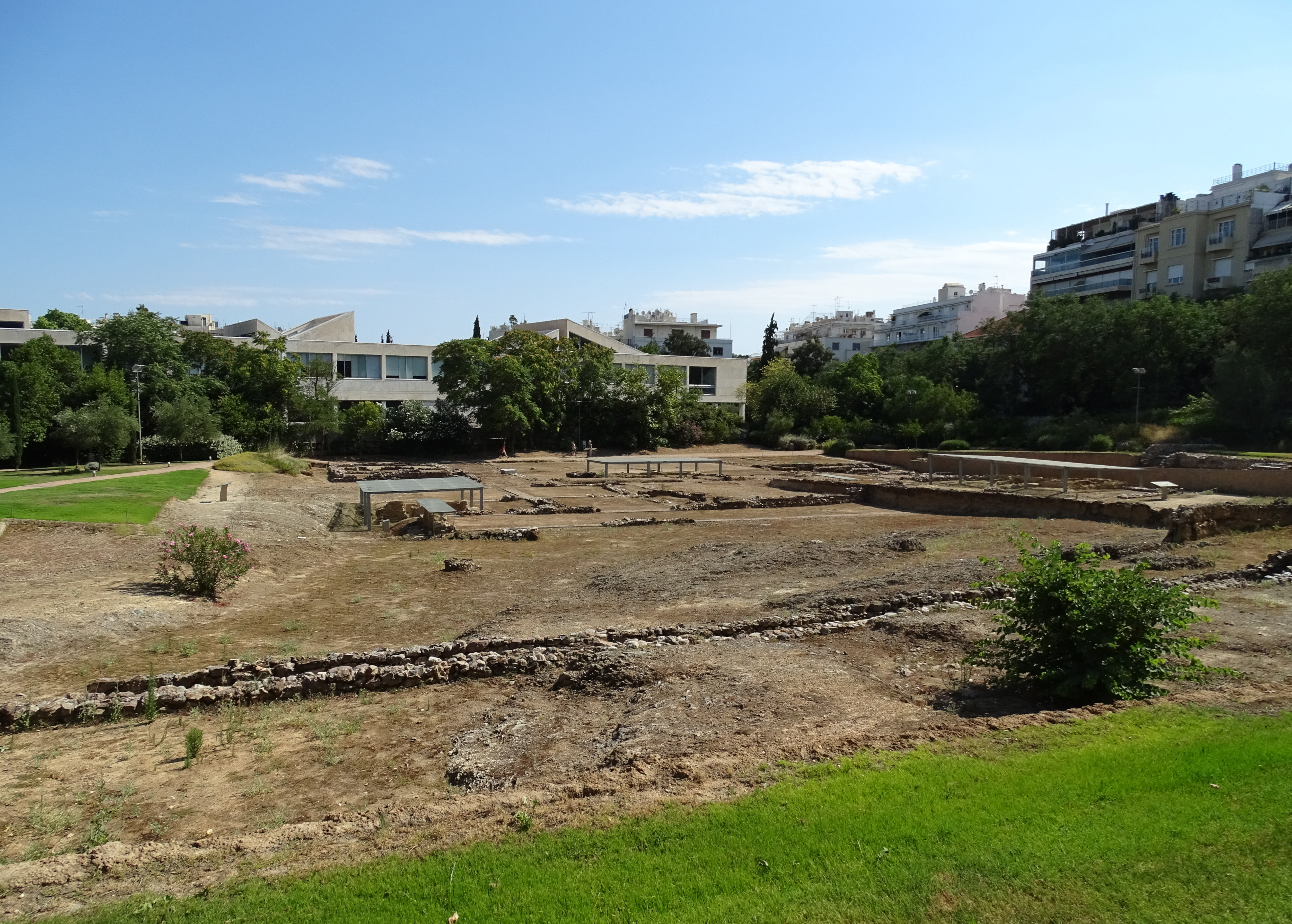 Excavations at what is called Aristotle's Lyceum (Lykeion), Athens.